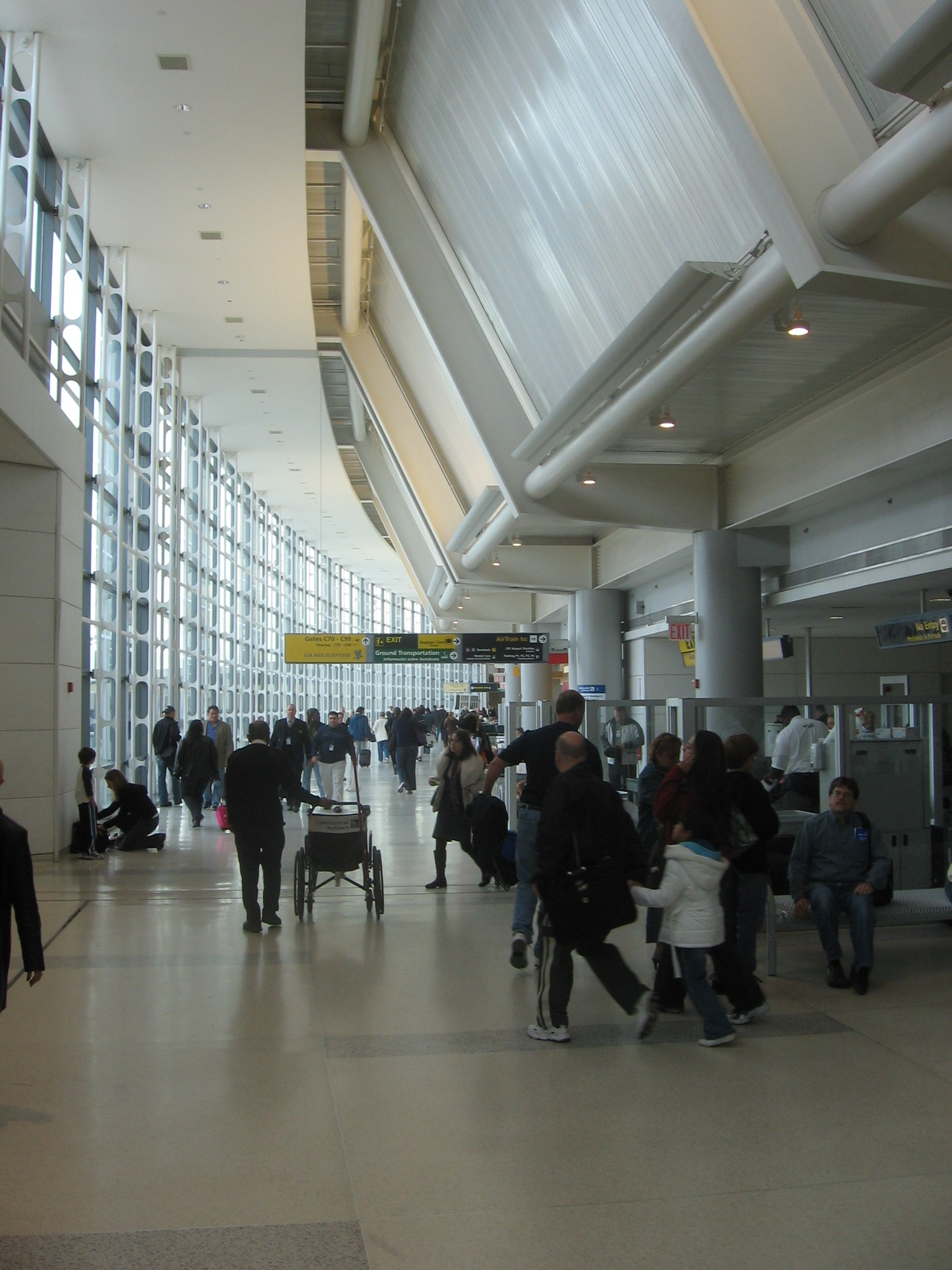 View at Newark Liberty Airport's Terminal C, taken by me November 2007